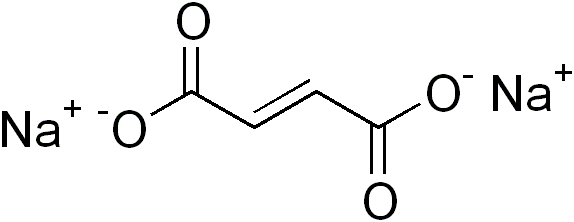 chemical structure of sodium fumarate